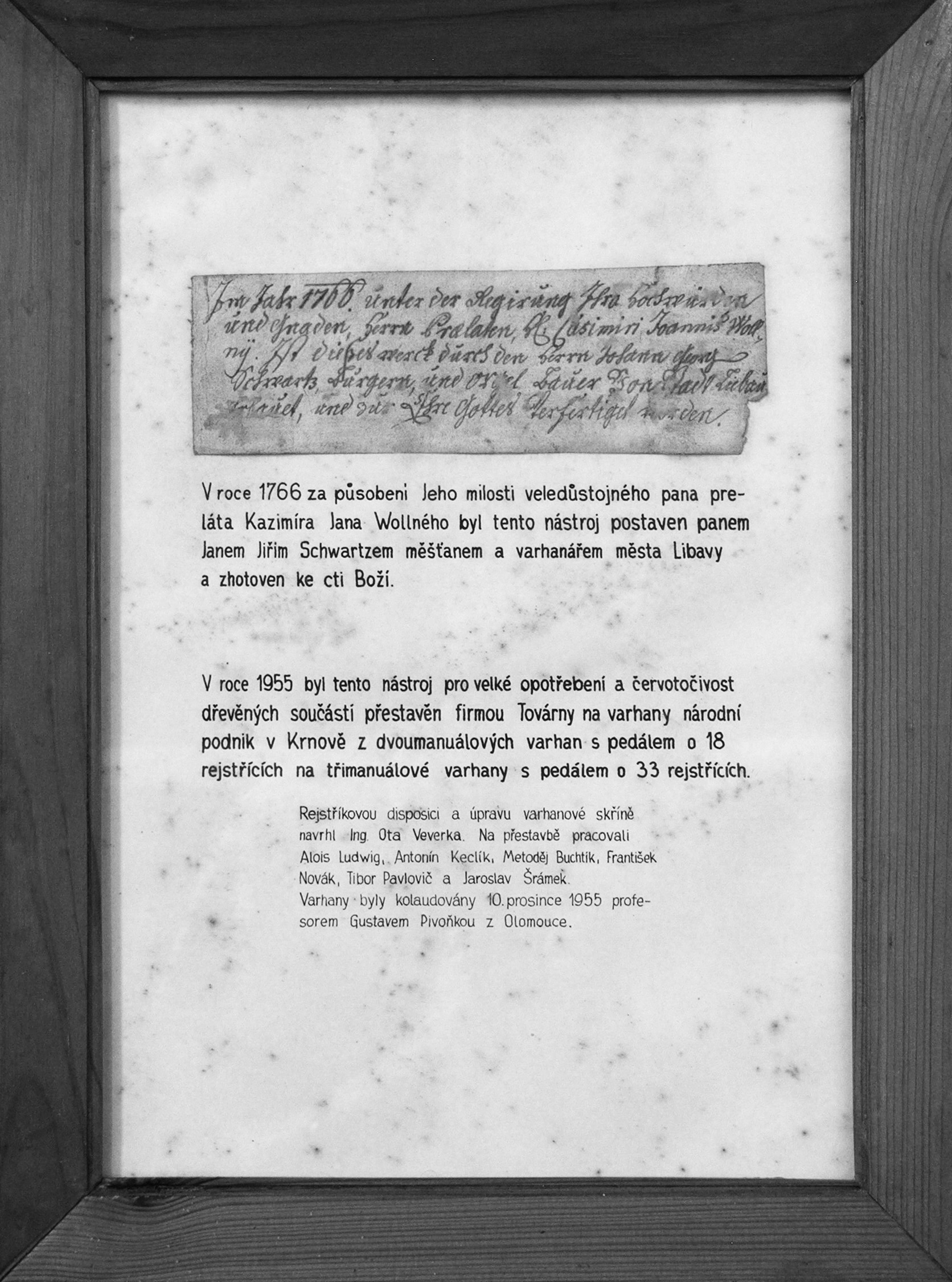 Information board on the organ of the Most Holy Trinity Church in Fulnek, Czechia.